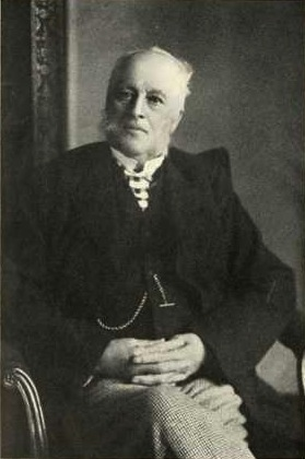 John Bell-Irving, member of the Legislative Council of Hong Kong